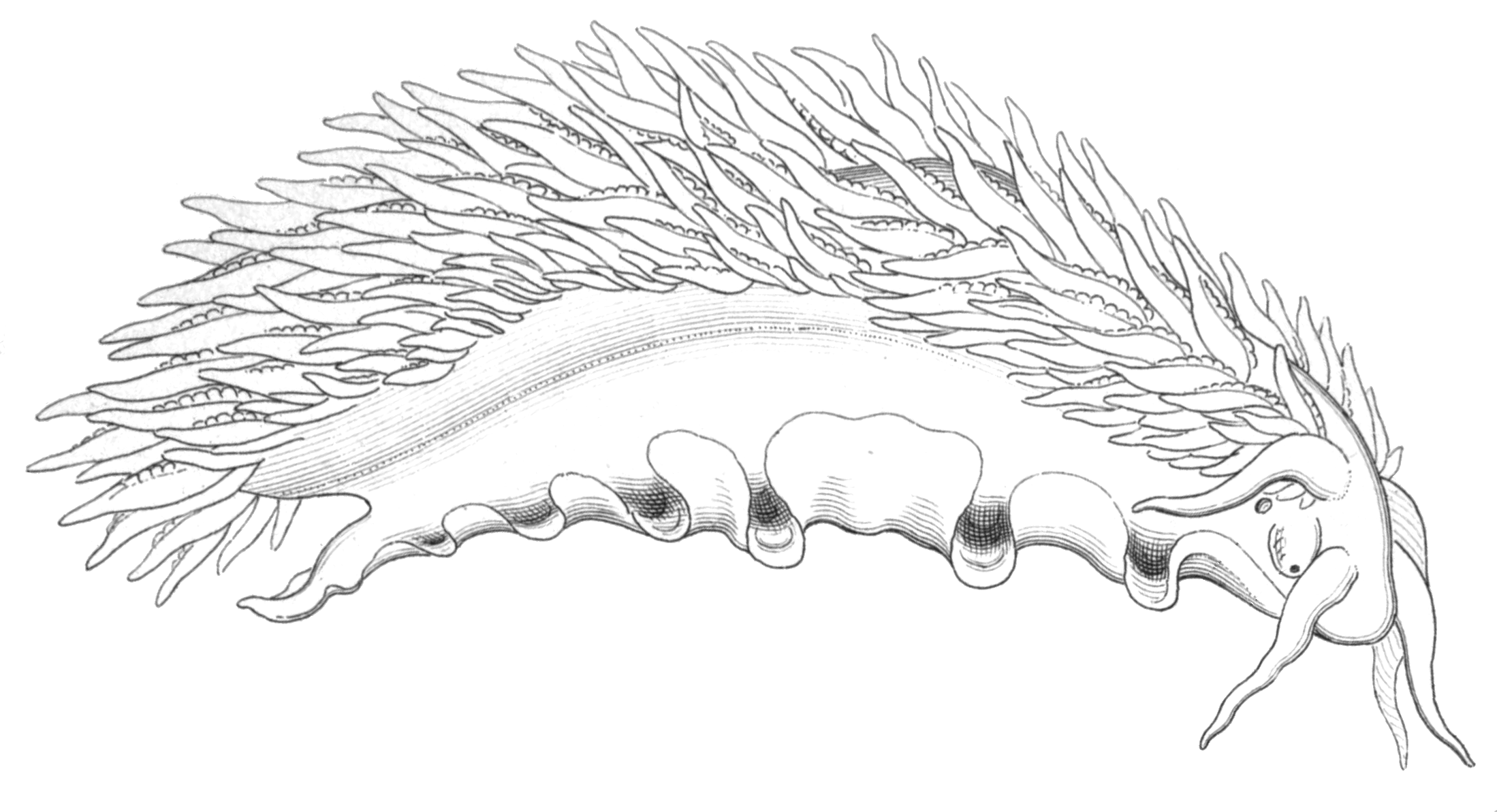 Drawing of lateral view of Fiona pinnata.